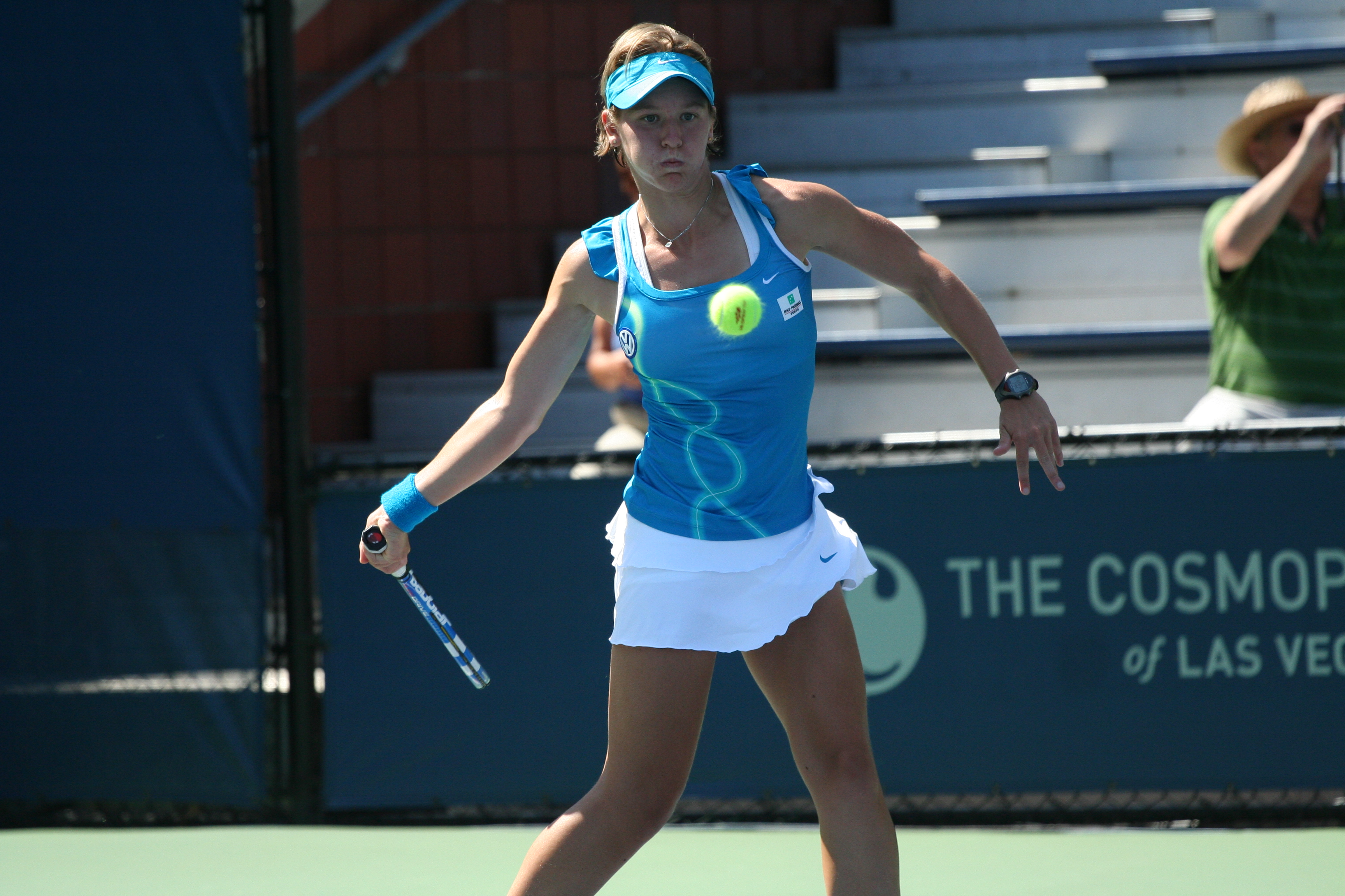 U.S. Open Juniors Sept. 6, 2010